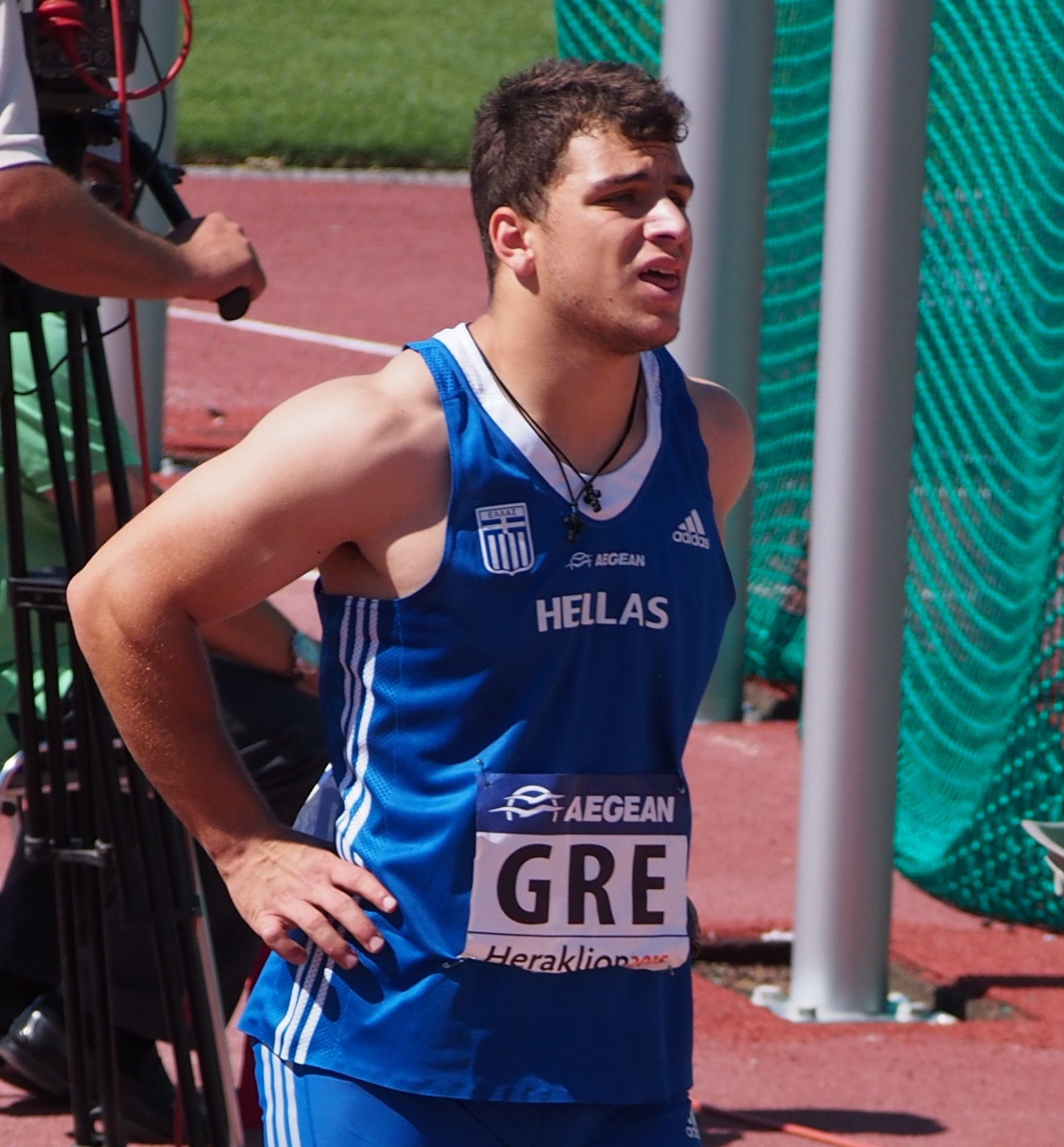 Michail Anastasakis during the 2015 European Team Championships First League.